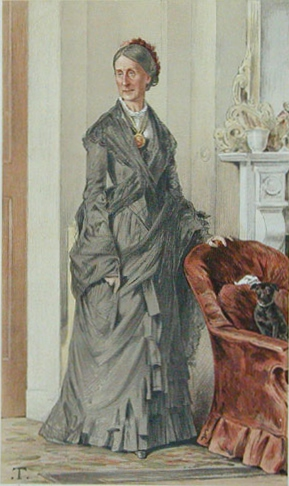 Caricature of Angela Burdett-Coutts, Baroness Burdett-Coutts.